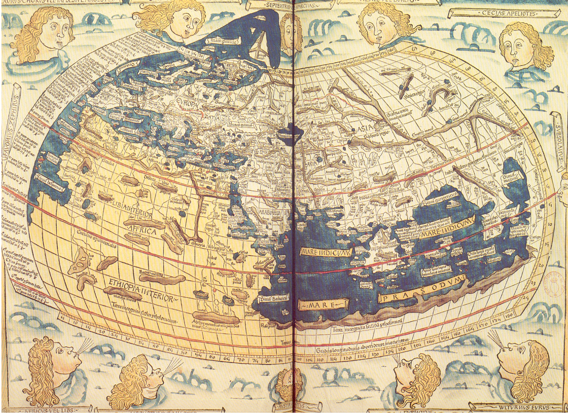 The world map from a 1482 edition of Nicolaus Germanus's emendations to Jacobus Angelus's 1406 Latin translation of Maximus Planudes's late-13th century rediscovered Greek manuscripts of Ptolemy's 2nd-century Geography. On ne possède aucune carte de Ptolémée. Celle que nous reproduisons a été gravée sur bois à Ulm en 1482 par Johannes de Armsshein dont le nom est porté dans la marge supérieure. Conçue comme une sphère, la Terre comporte les trois continents de l'Antiquité : Europe, Asie et Afrique, environ le tiers du monde aujourd'hui connu. Les vents représentés par des têtes aux cheveux blonds soufflent sur la Terre.